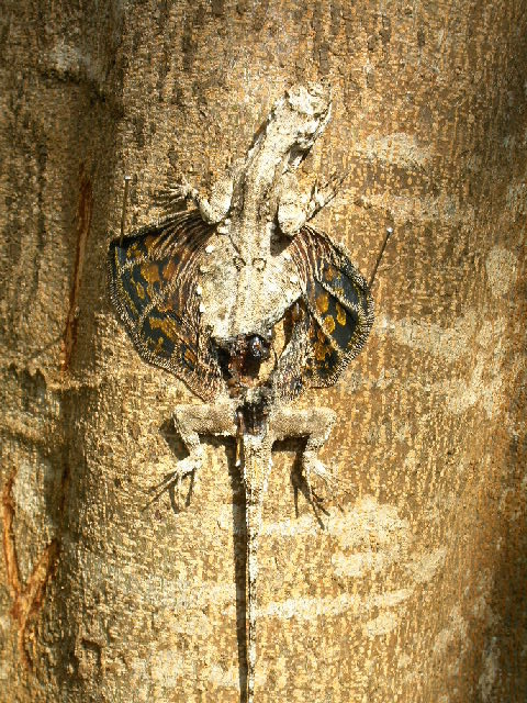 A photo of Draco dussumieri, an agamid lizard from South India